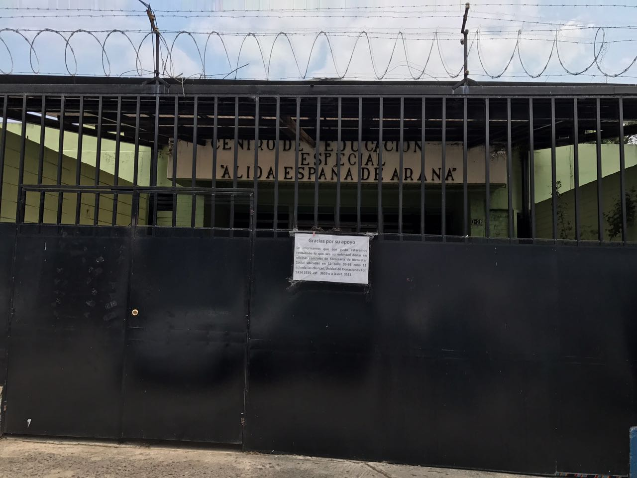 The Inter-American Commission on Human Rights (Comisión Interamericana de los Derechos Humanos) visits Guatemala following the fire at Hogar Seguro Virgen de la Asunción in March 2017.